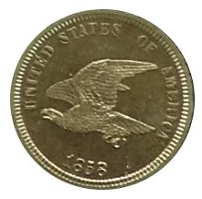 Unadopted pattern for Flying Eagle cent